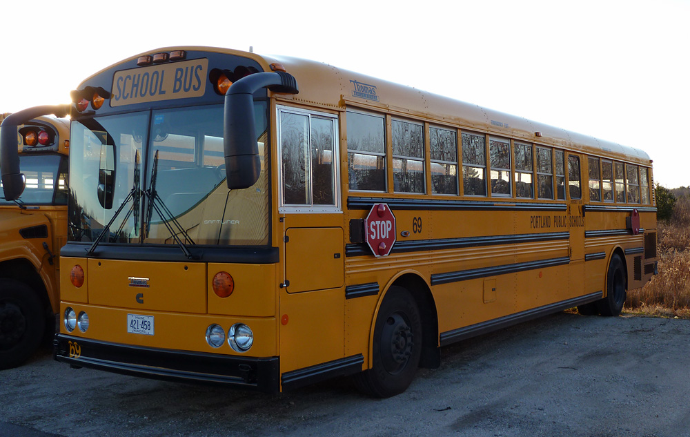 A Thomas Built Buses Saf-T-Liner HDX school bus belonging to Portland Public Schools of Portland, Maine.